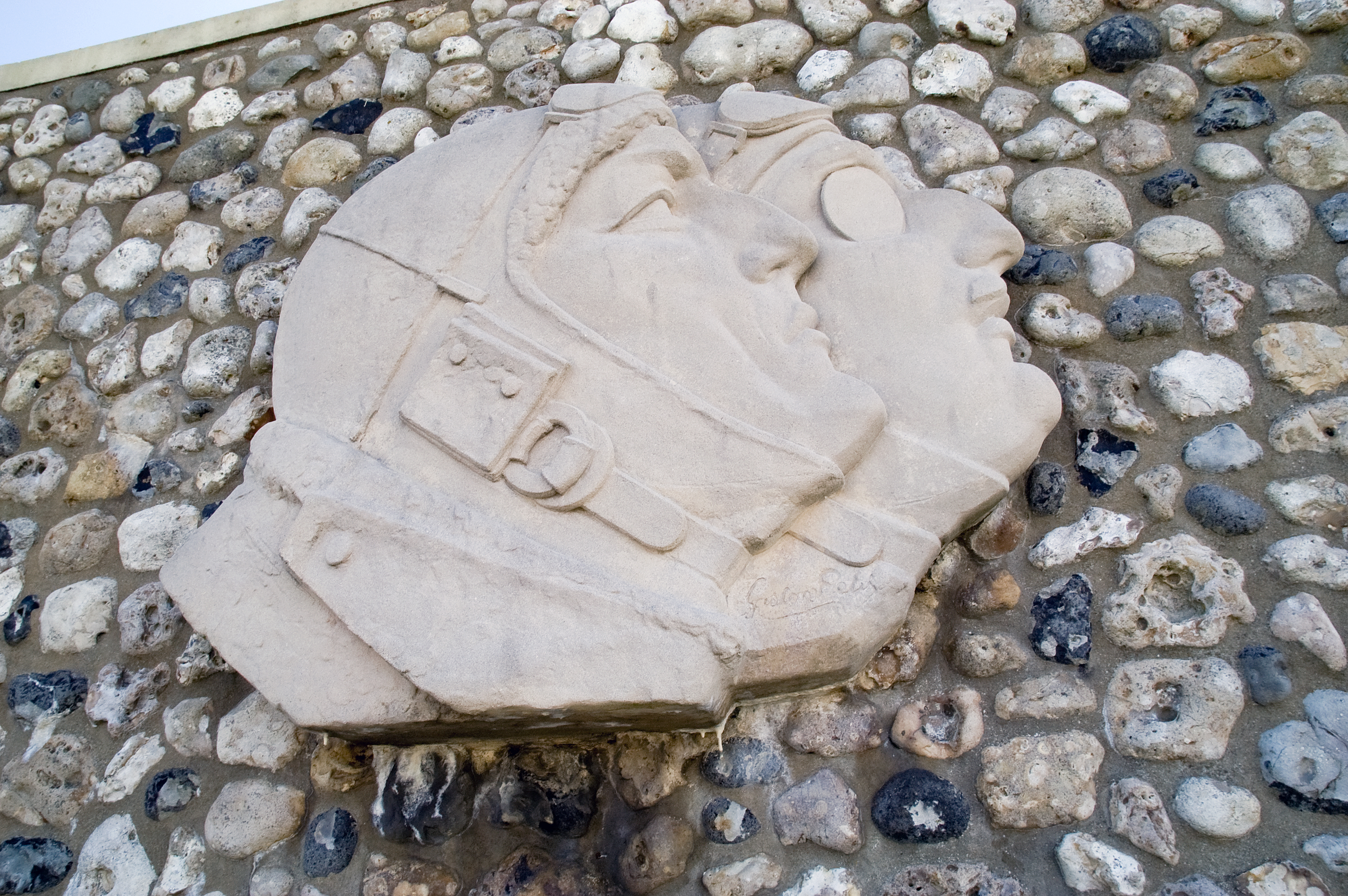 Group portrait relief (20th c.) of the French aviators Charles Nungesser (left) and François Coli (right), Musée Nungesser-et-Coli, Étretat (Seine-Maritime, France. The two aviators disappeared in 1927 in an attempt to make the first nonstop flight from Paris to New York, on the biplane The White Bird (L'Oiseau Blanc).